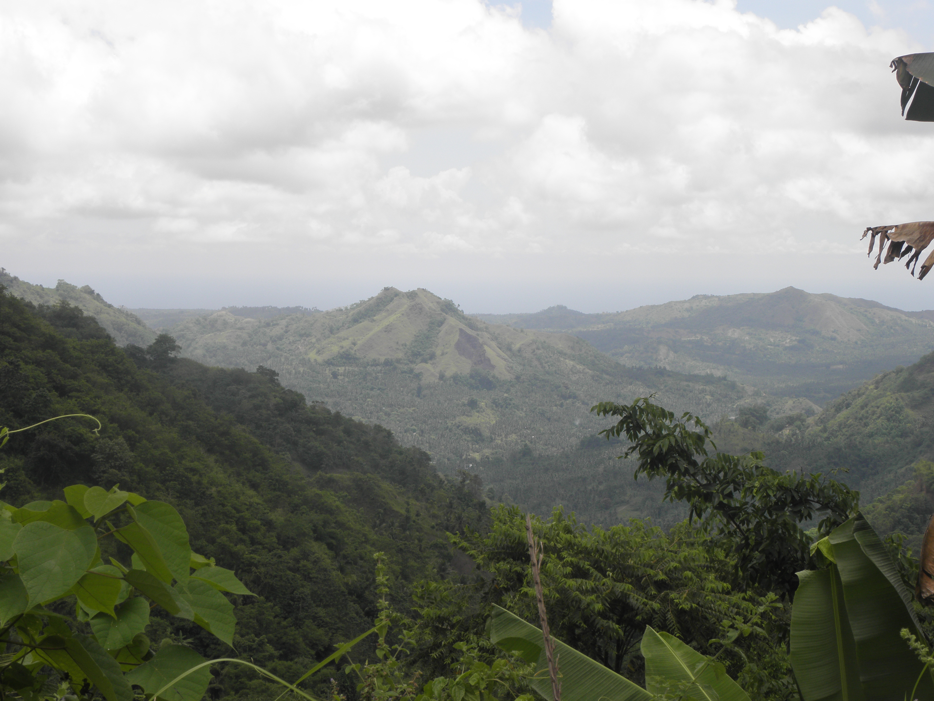 Rural/Agricultural, Initao, Misamis Oriental — Mindanao.